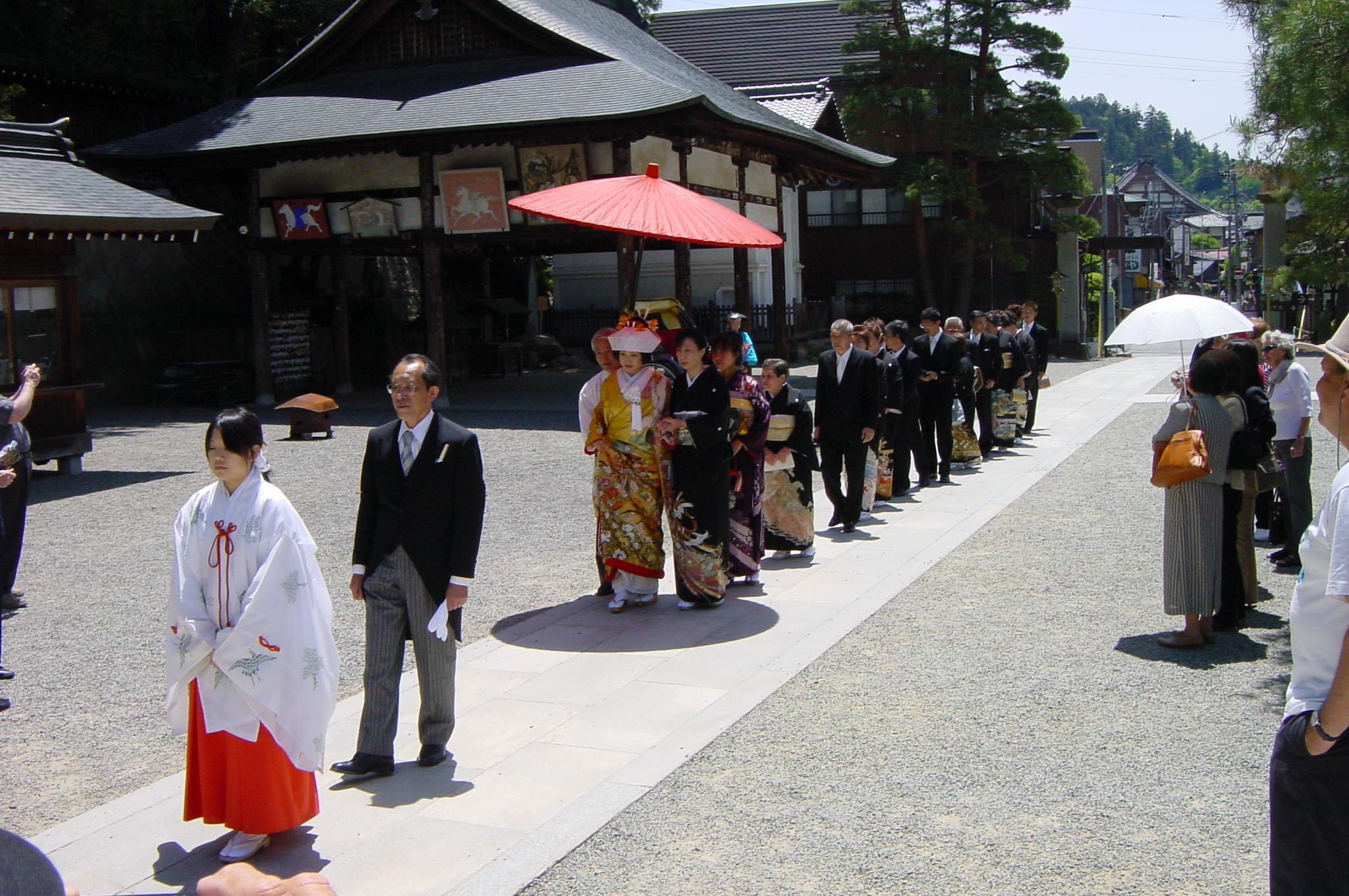 Wedding at a shrine in Tokyo